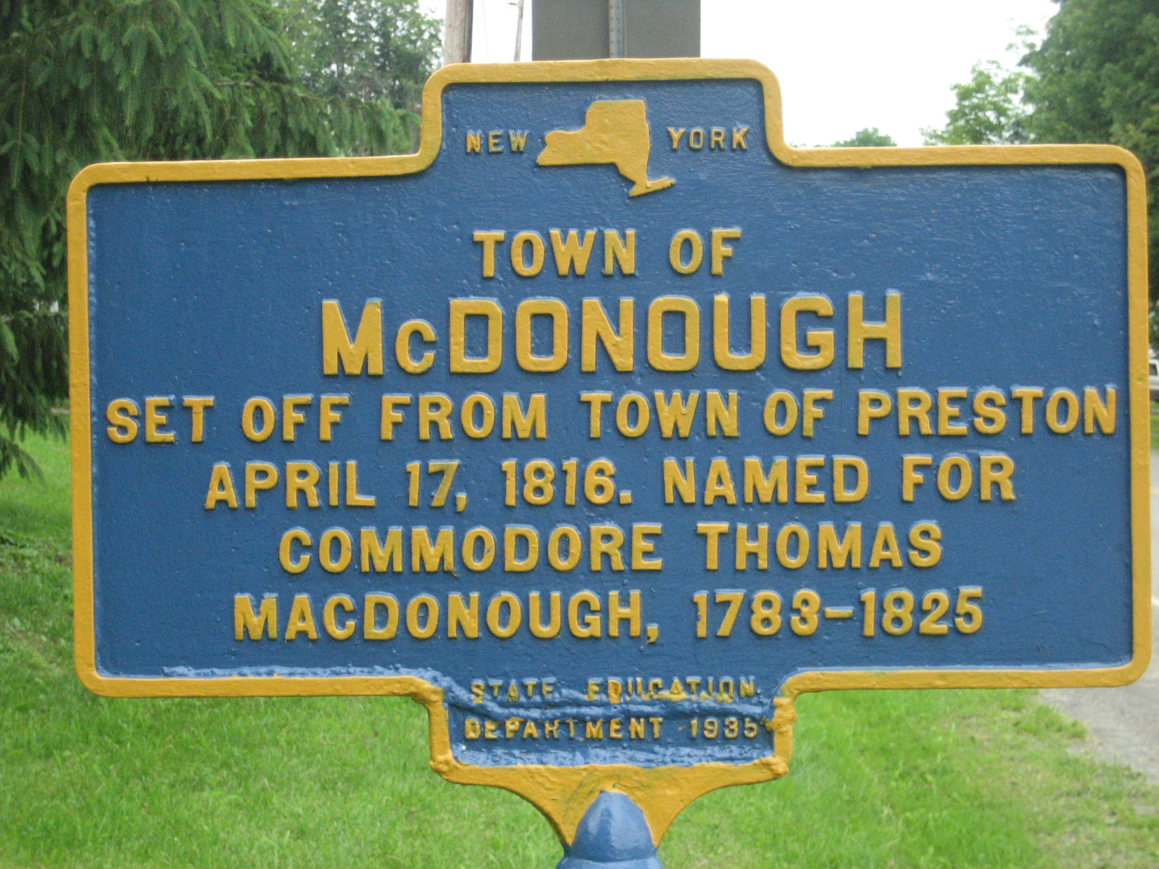 Historic marker of the Town of McDonough, NY. Named for Commodore Thomas MacDonough, 1783-1825